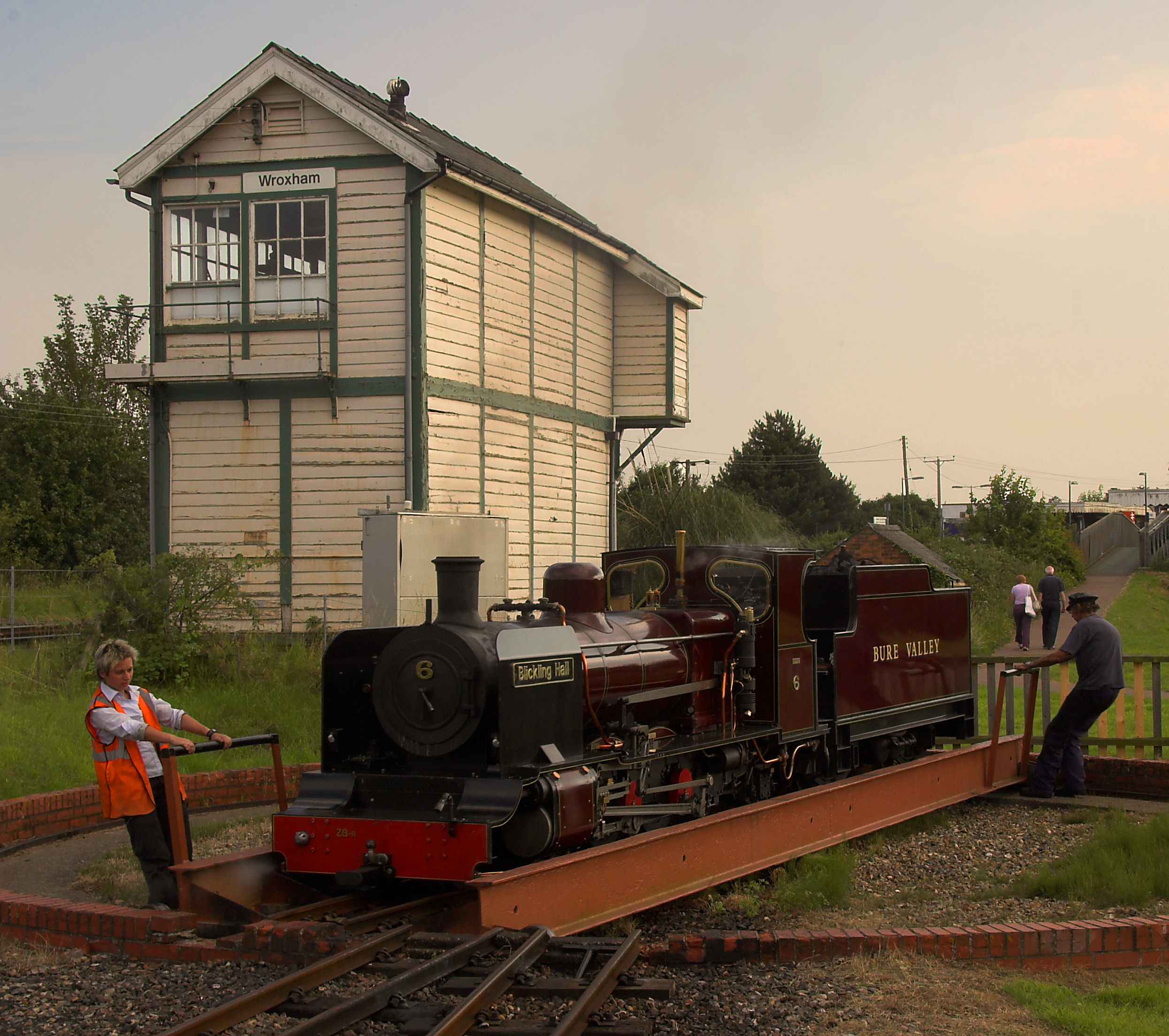 Locomotive No. 6 "Blickling Hall" being turned on the turntable at Wroxham